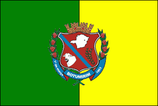 Flags of the city of Botumirim, Minas Gerais, Brazil.